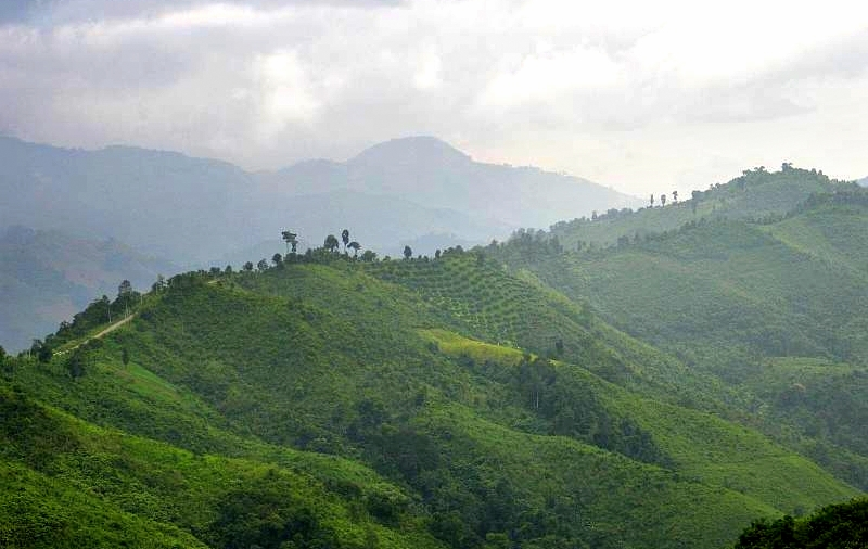 Road number 1256 in Pua District snaking on top of the mountain ridge towards Doi Phu Kha National Park.